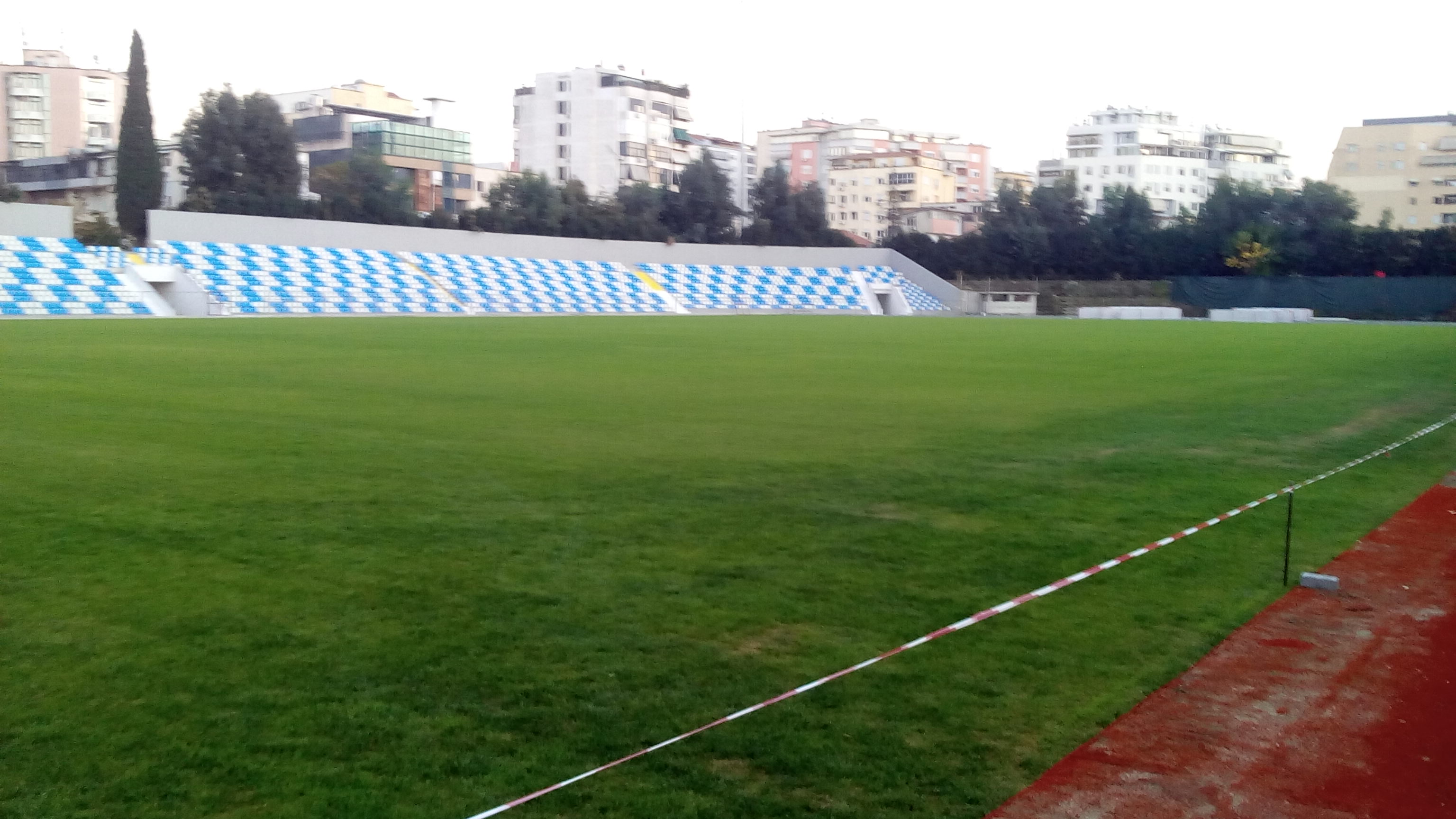 This is a photo of the field of Selman Stërmasi Stadium.